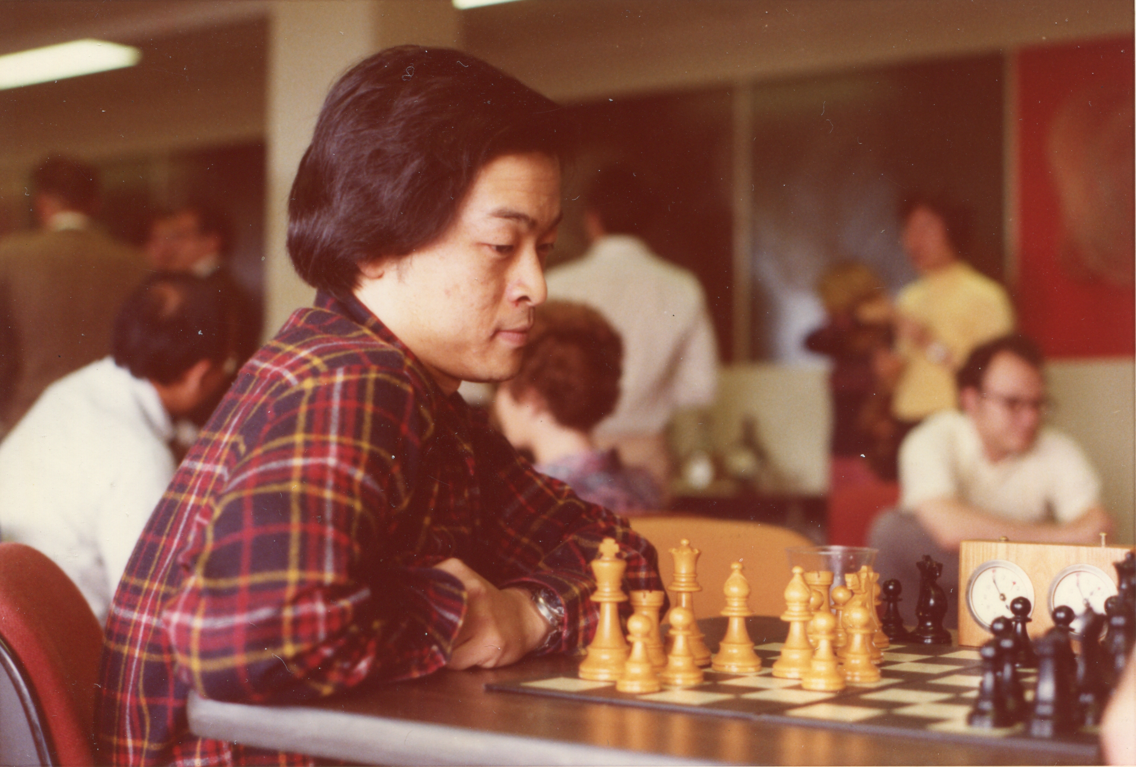 Japanese-born mathematician Akihiro Kanamori (金森 晶洋) at Berkeley, California, playing chess with his opponent